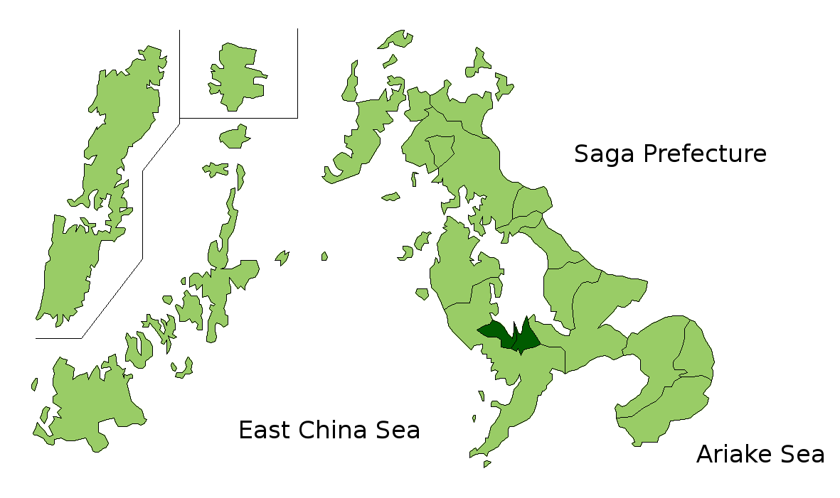 The location of Nishisonogi_District in Nagasaki Prefectuur, Japan